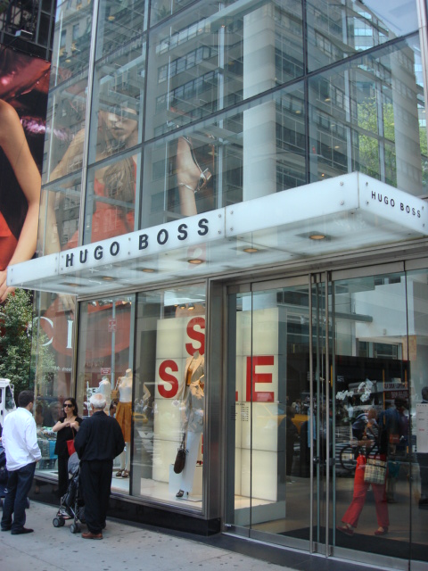 Hugo Boss store on 5th Ave. NYC